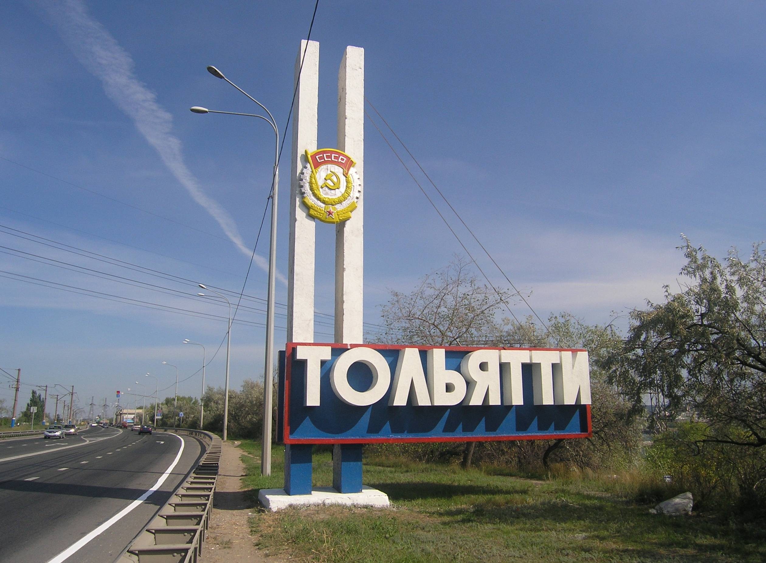 Road mark - Togliatti (above the city name the Order of the Red Banner of Labour of the Soviet Union)